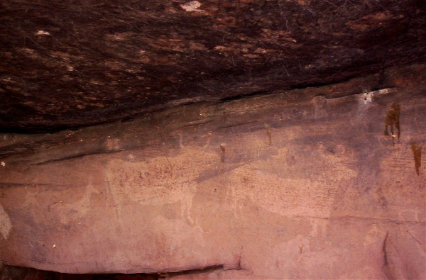 Albarracín, Teruel, Spain. Painting of a Bull. "Rock-Shelter of the Archer of Callejones Cerrados: this site’s best figure is an archer in red in a horizontal position, drawing his bow. This expressive image is used as the logo of Albarracín Cultural Park. Other human and animal figures (bulls, ibex and horses) are painted in yellowish white."